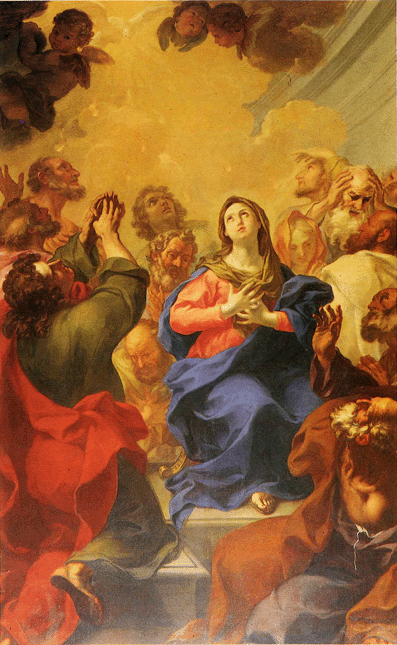 Painting